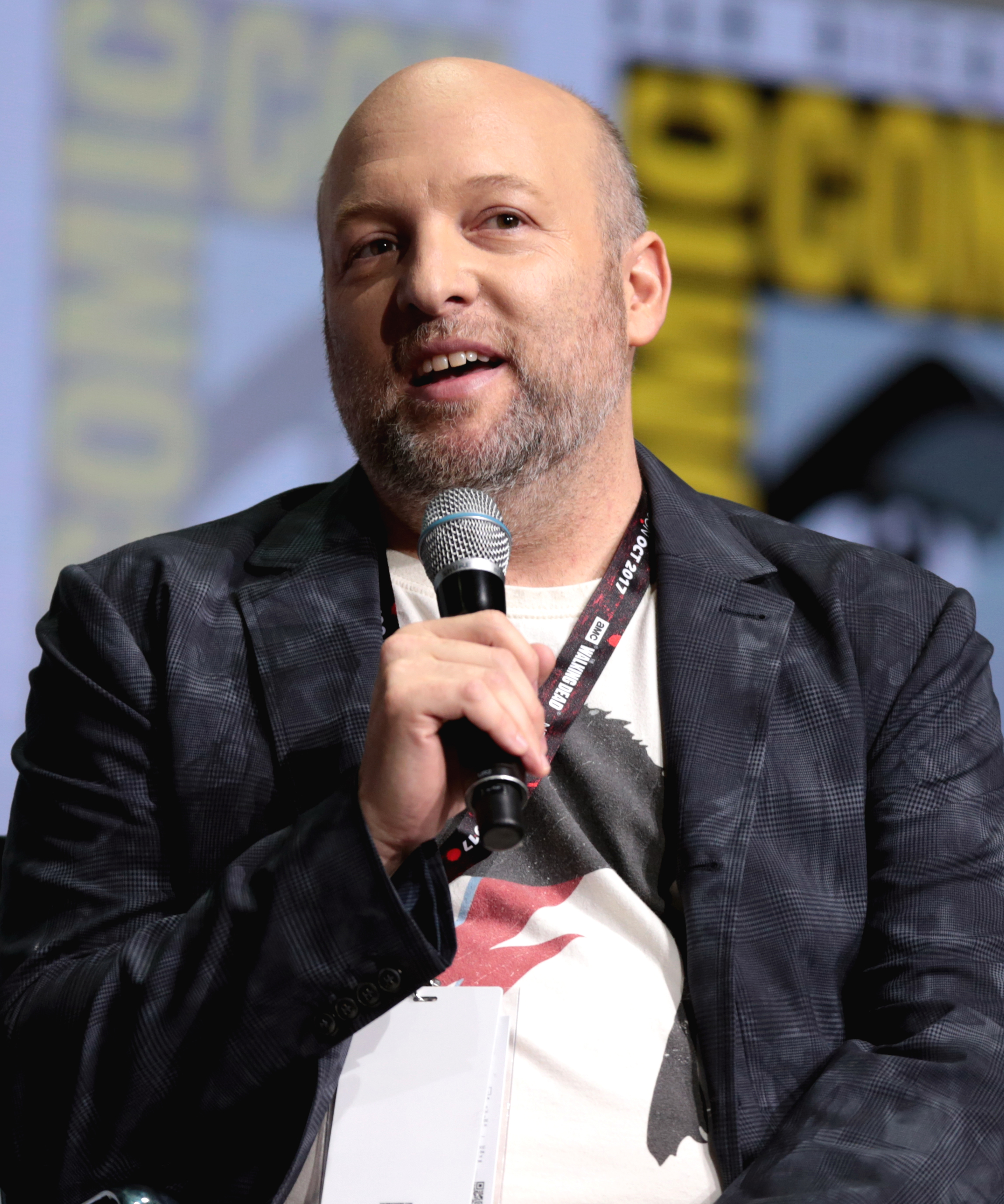 Zak Penn speaking at the 2017 San Diego Comic-Con International in San Diego, California.